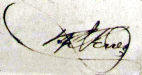 Signature of Francesc Ferrer i Guàrdia.